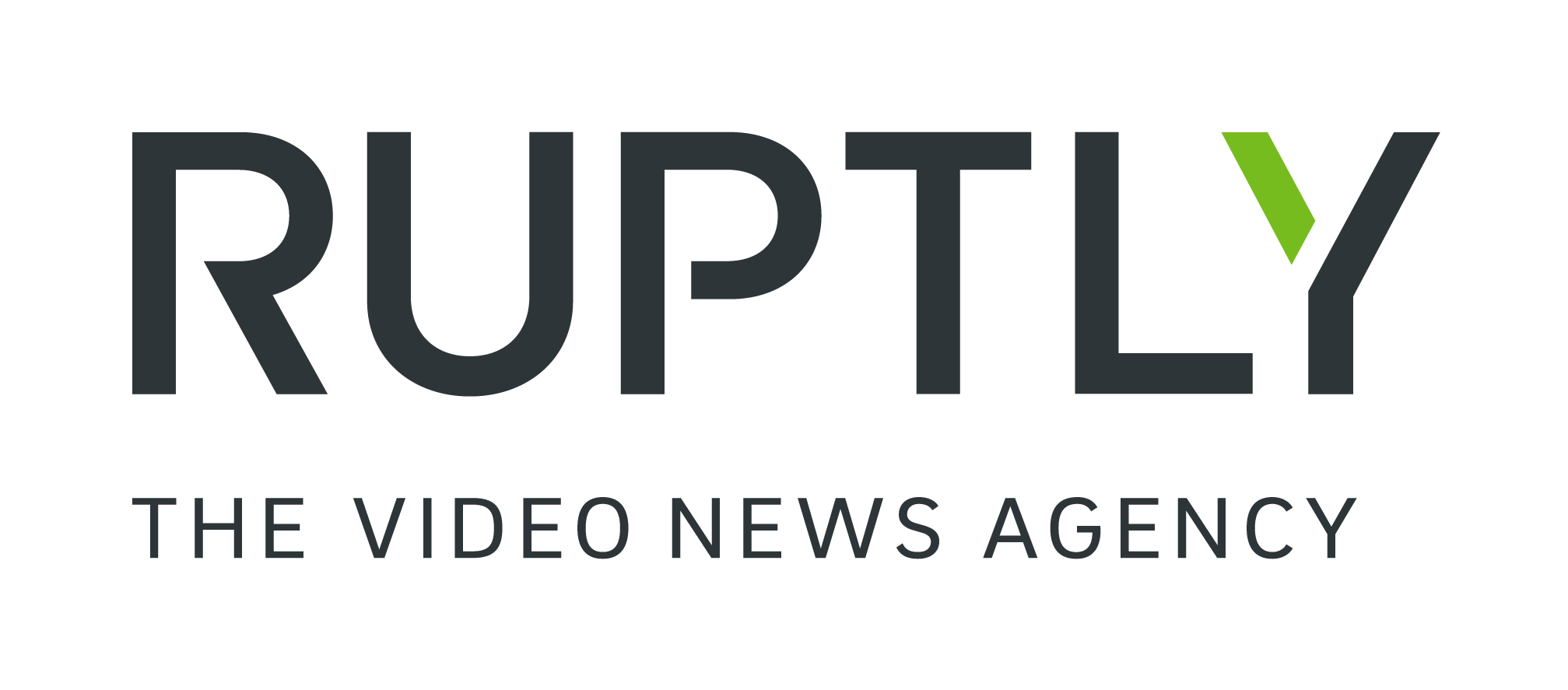 Ruptly GmbH official logo